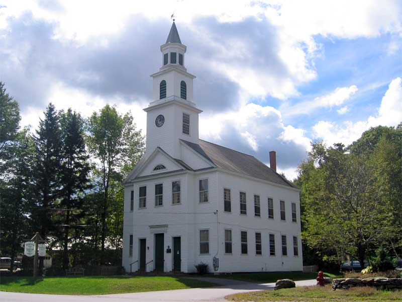 The Meeting House Congregational Church on South Road in Marlboro, Vermont, not to be confused with the Town (Meeting) House nearby.